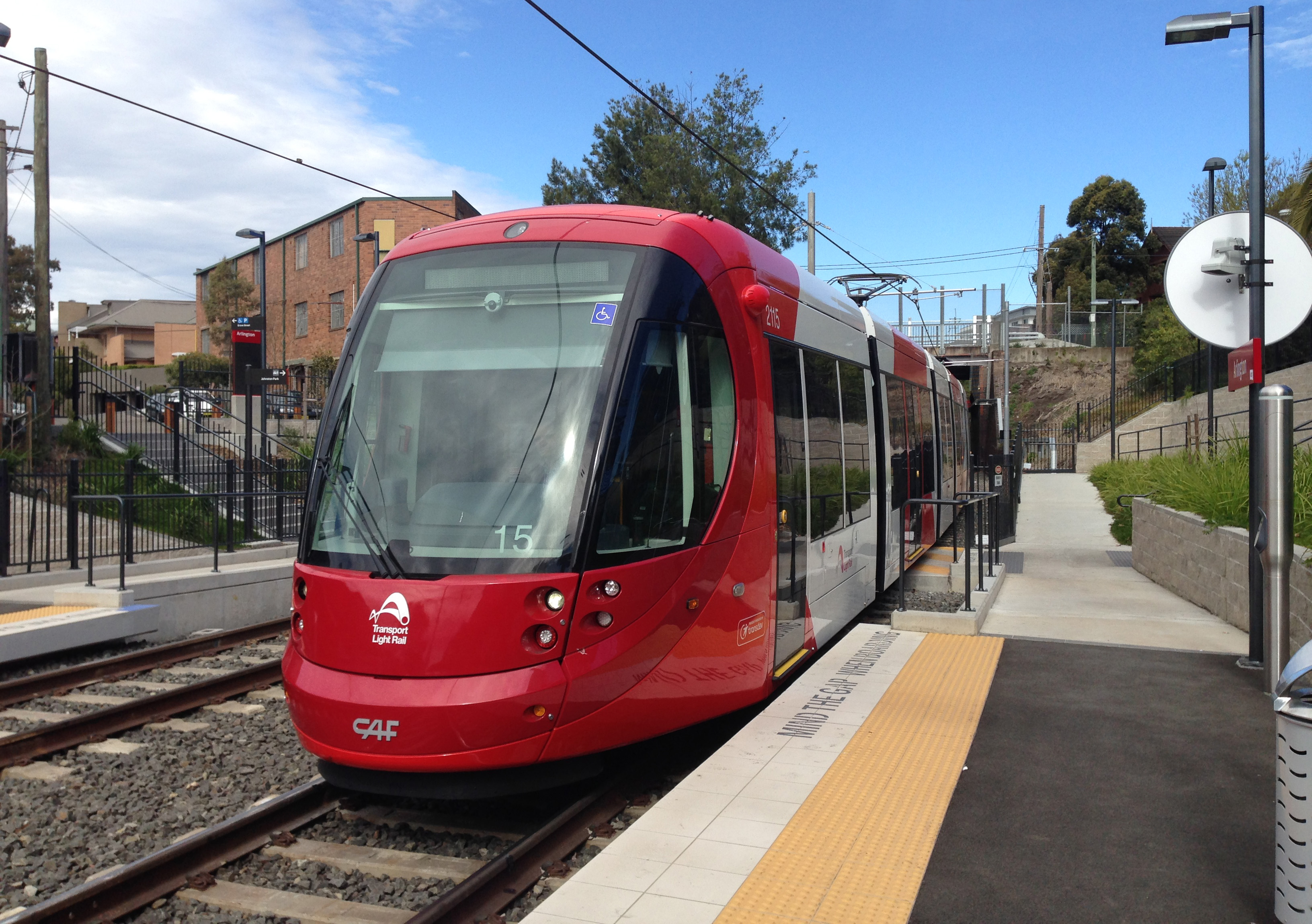 Urbos 3 2115 at Arlington light rail stop.